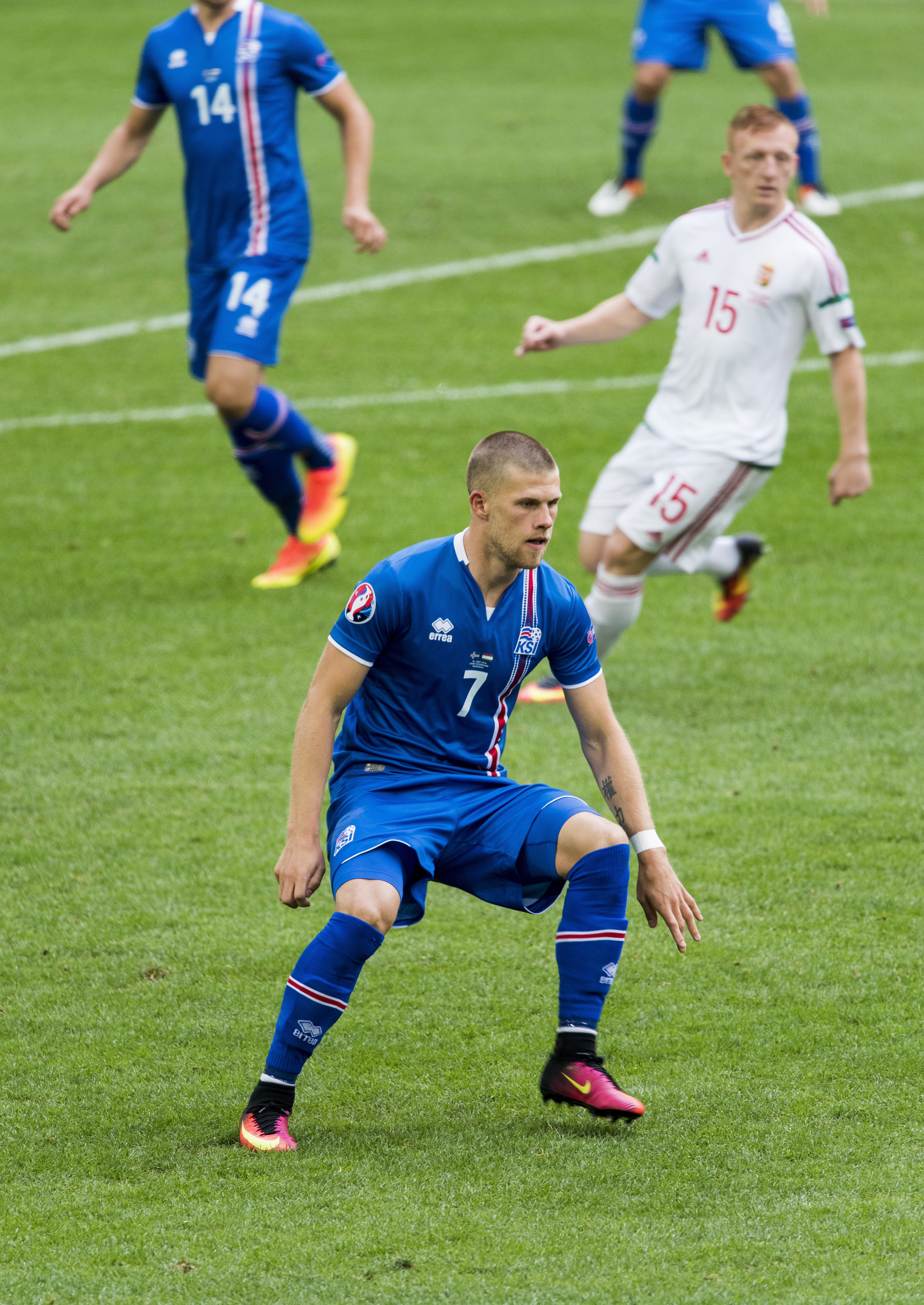 Jóhann Berg Guðmundsson (foreground) and László Kleinheisler (background, in white) during a match between Iceland and Hungary at UEFA Euro 2016.